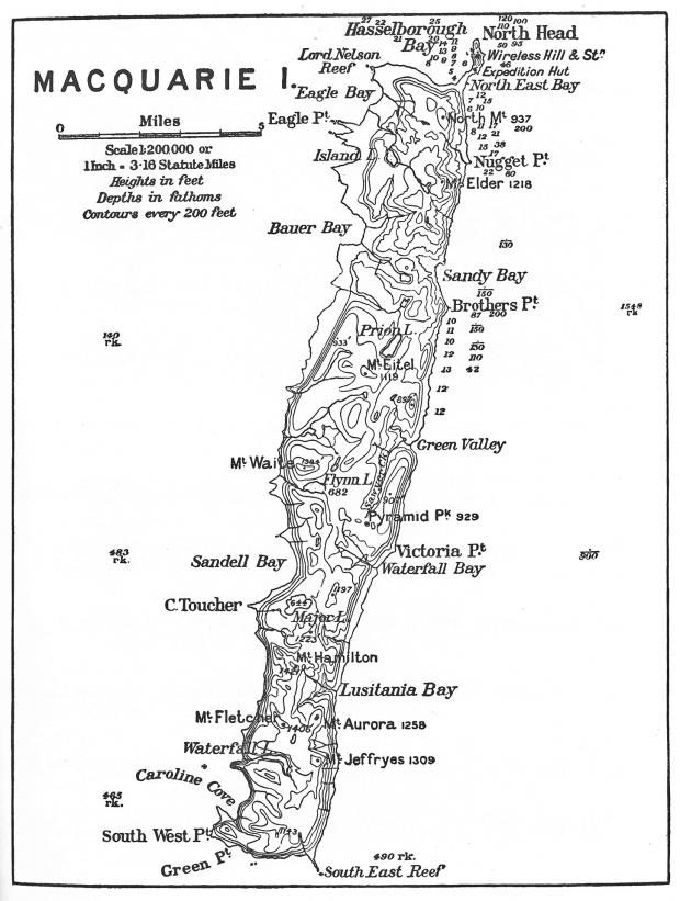 Map of Macquarie Island produced by the Australasian Antarctic Expedition of 1911–1914